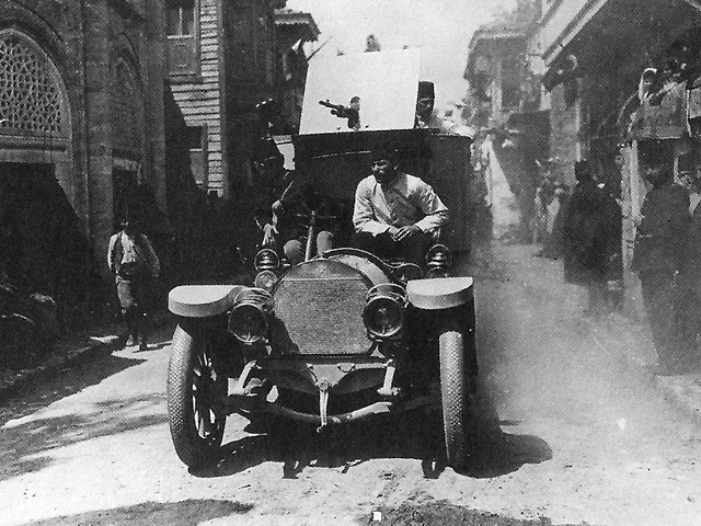 Young Turk revolutionaries entering Istanbul in 1909